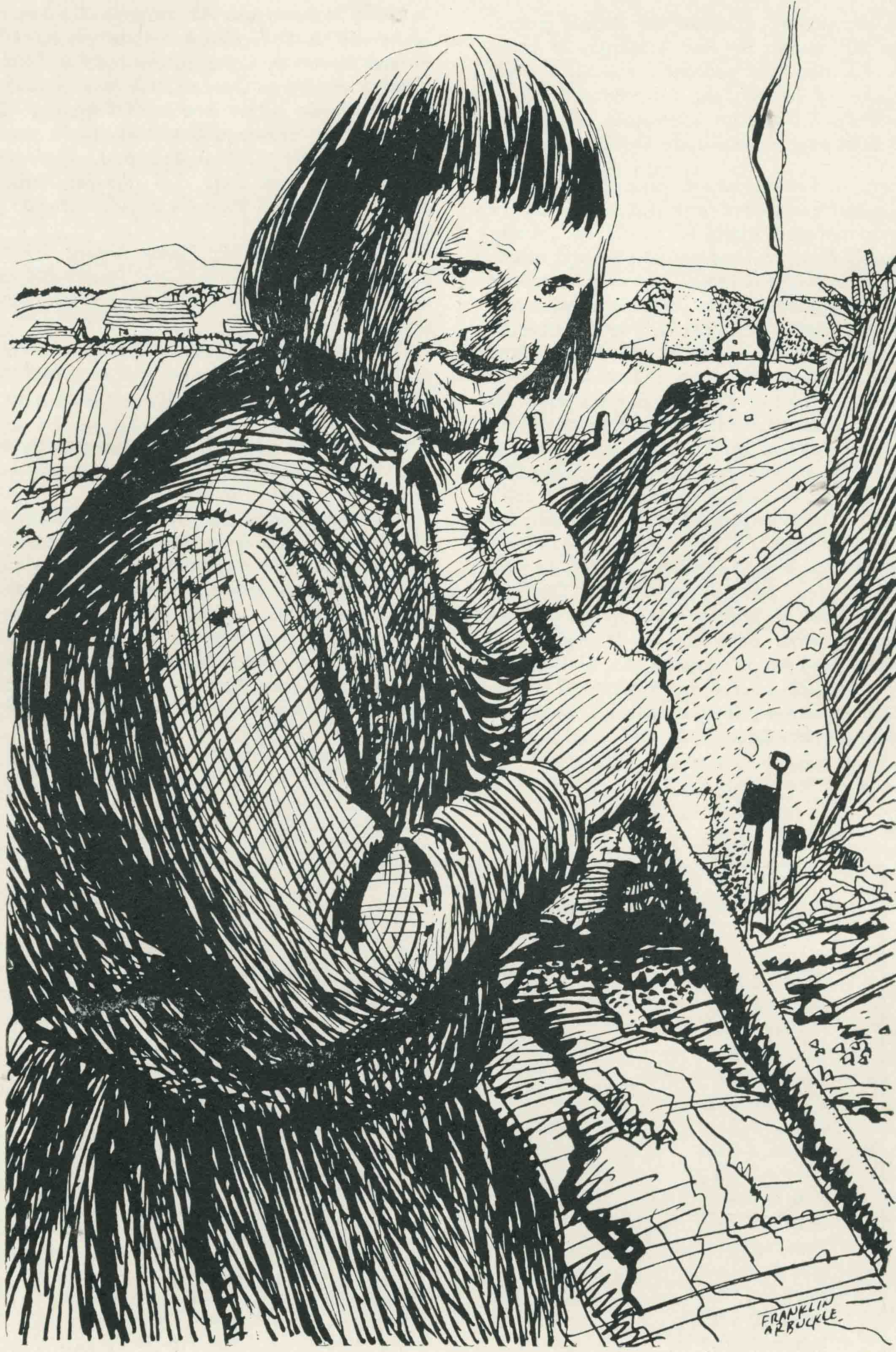 Artist's rendition of Robert de la Berge which appeared in volume 15 of Nos Ancetres written by Lebel & Saintonge. It also appears in the English translation called Our French-Canadian Ancestors by Thomas J. Laforest. Is is unknown what reference the artist used to create the drawing.